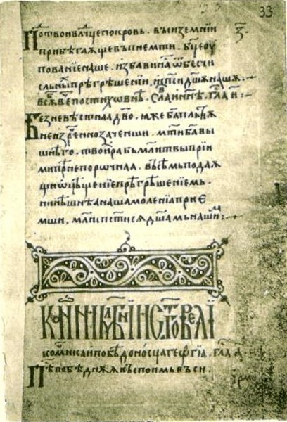 Cyrillic script from XIII century